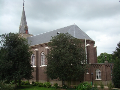 church of Rossum